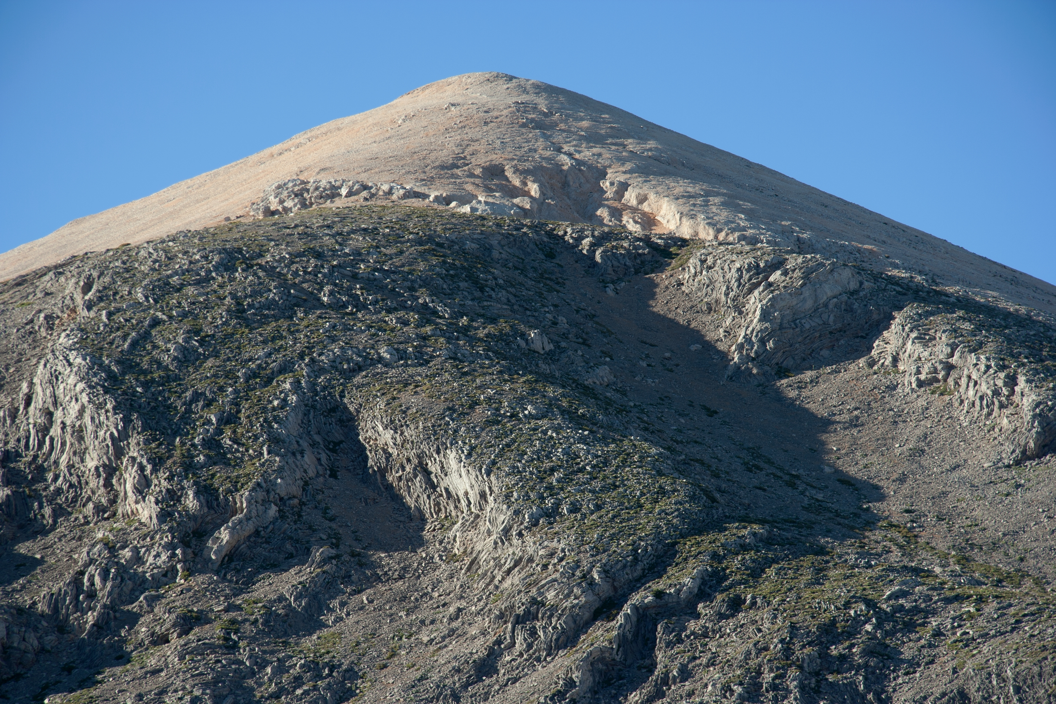 Mount Mandaki (Madhaki, 2225 m) in the early sun above Katsiveli. Lefka Ori, Crete.